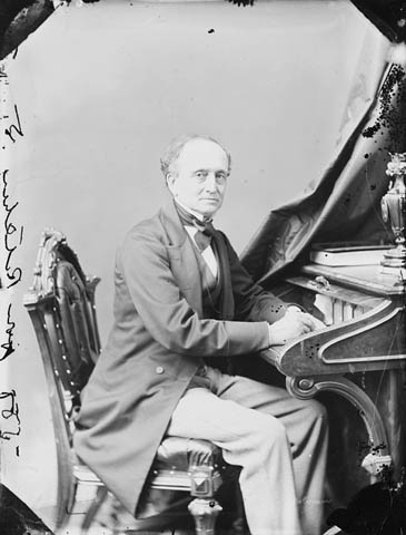 From [1], in the public domain